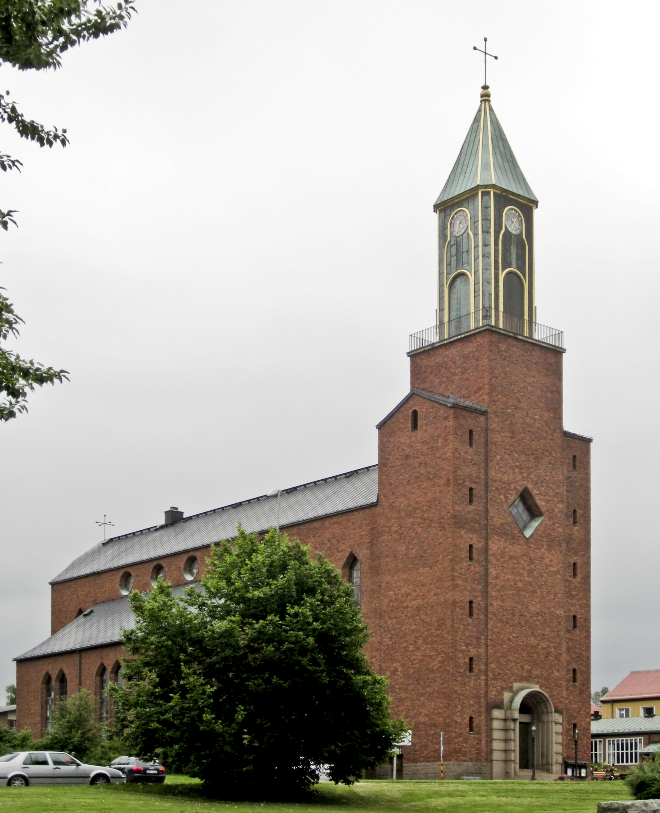 "Stora kyrkan" ("Big church"), Östersund, Diocese of Härnösand, Sweden.